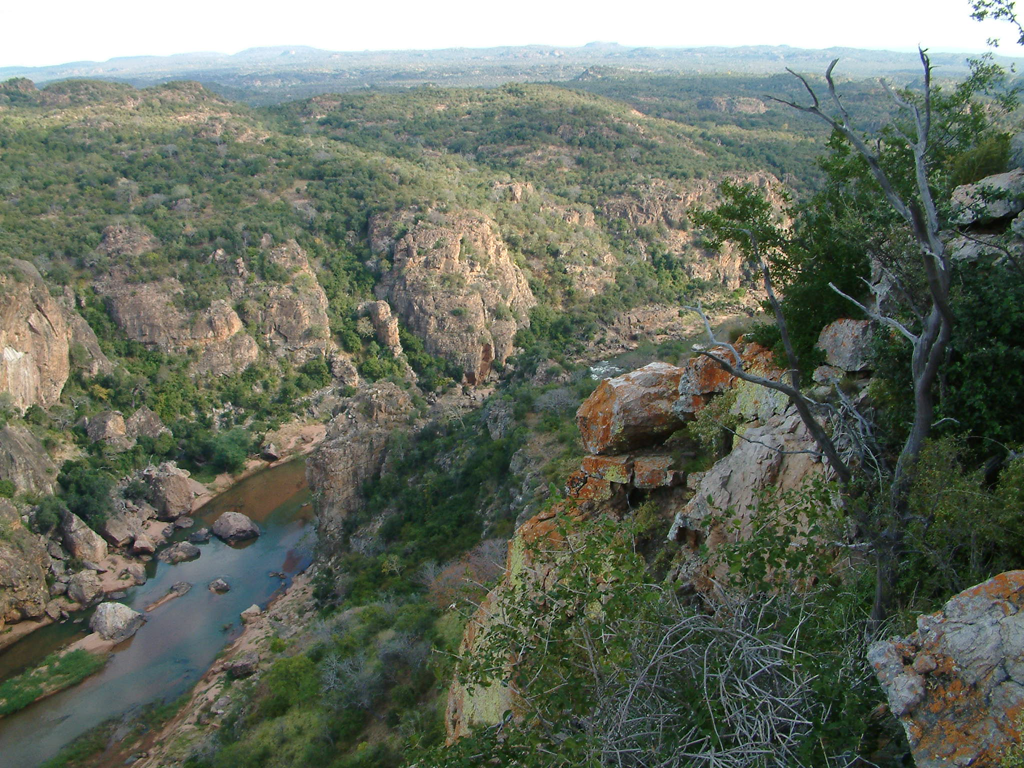 View of the Levubu River in Lanner Gorge, Pafuri. Photo from Lee Berger's Lanner Gorge expedition.